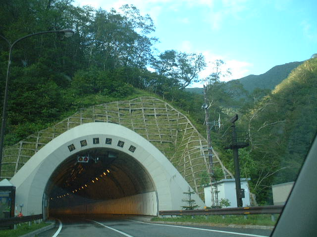 Tokachi side portal of the Nozuka Tunnel